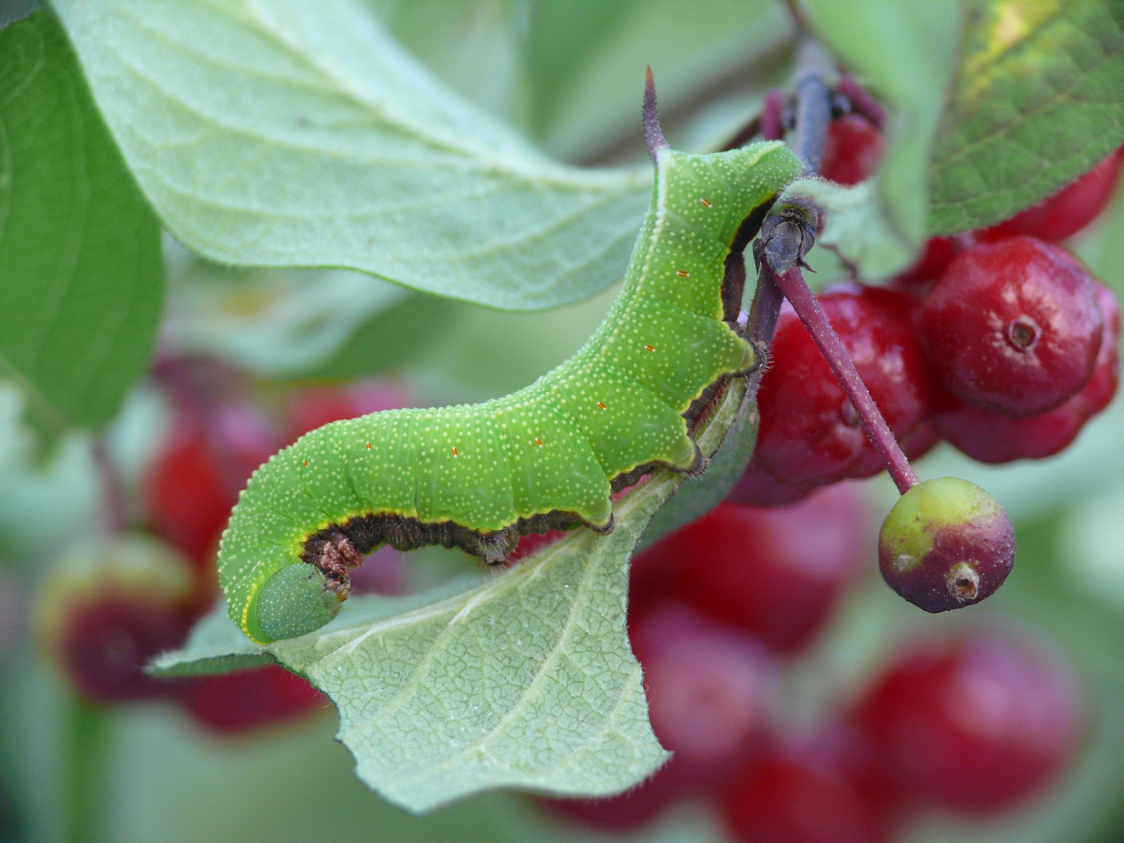 Caterpillar of the Broad-bordered Bee Hawk-moth (Hemaris fuciformis), urban hinterland of Munich, Germany